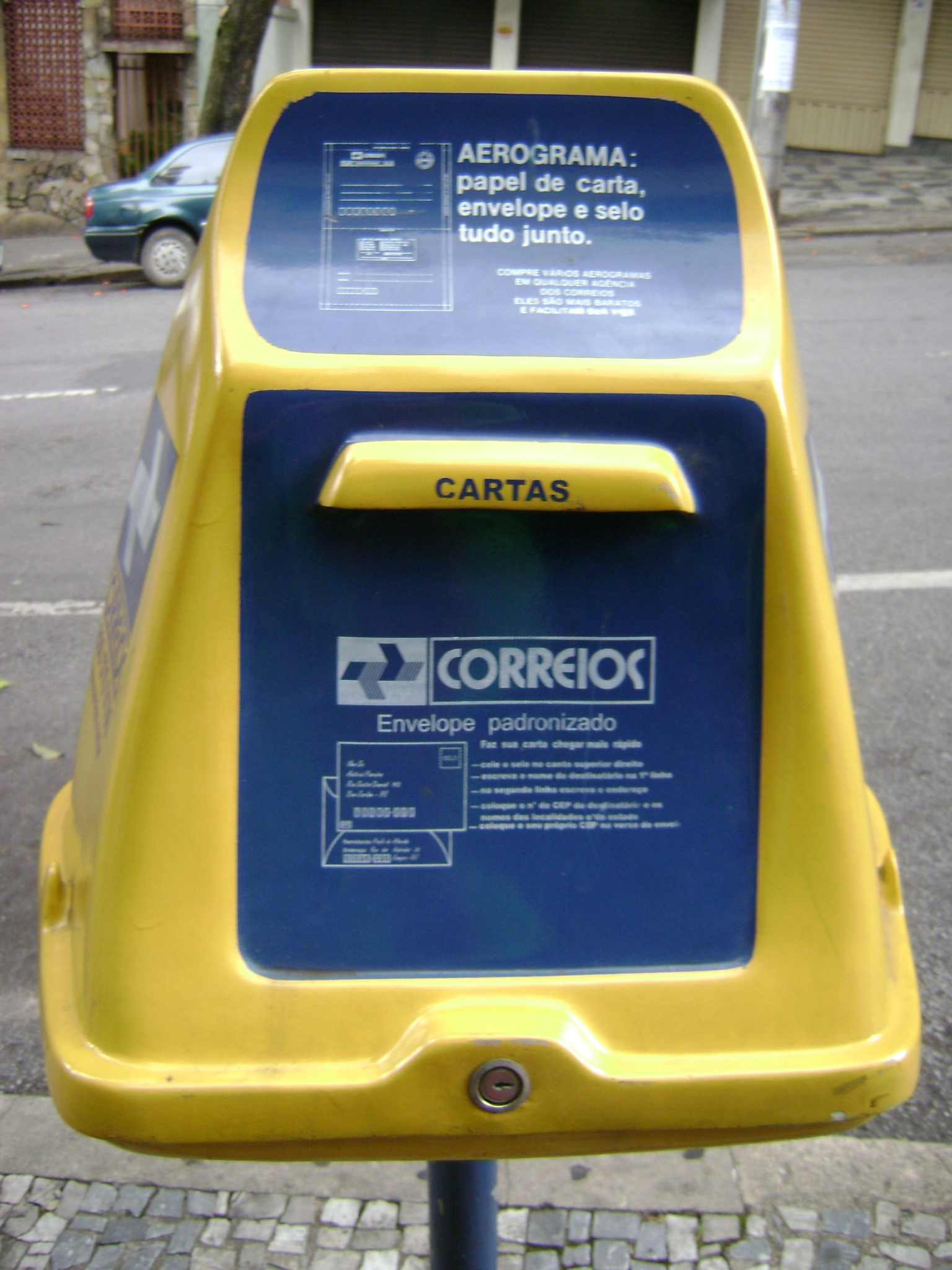 Caixa de correio em Belo Horizonte.